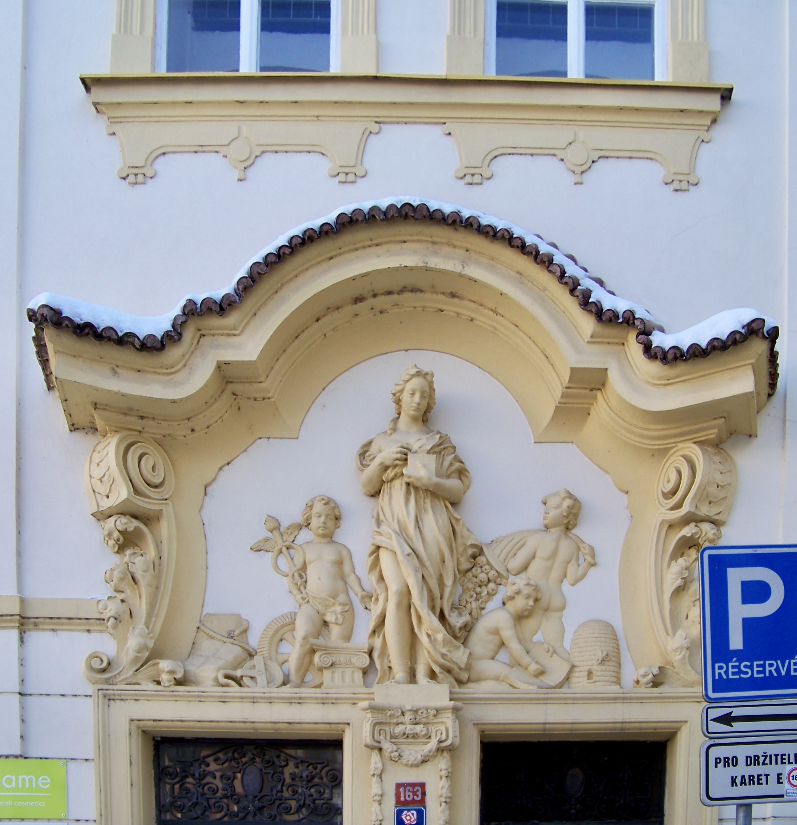 Hradec Králové, the Czech Republic. V Kopečku Street, the building No 163, a relief on the entry portal.